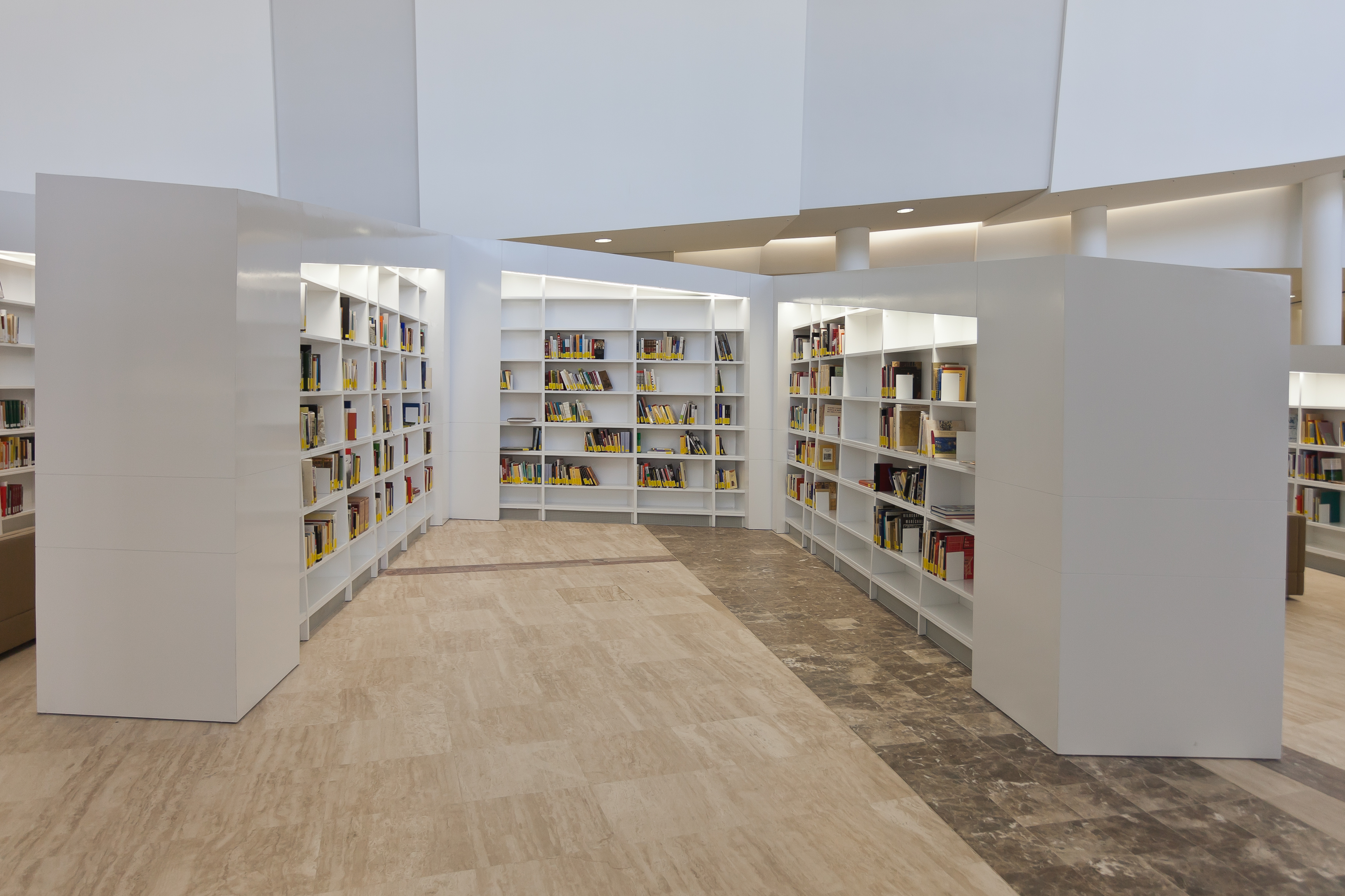 Library of Galicia. City of the Culture of Galicia. Santiago de Compostela. Peter Eisenman